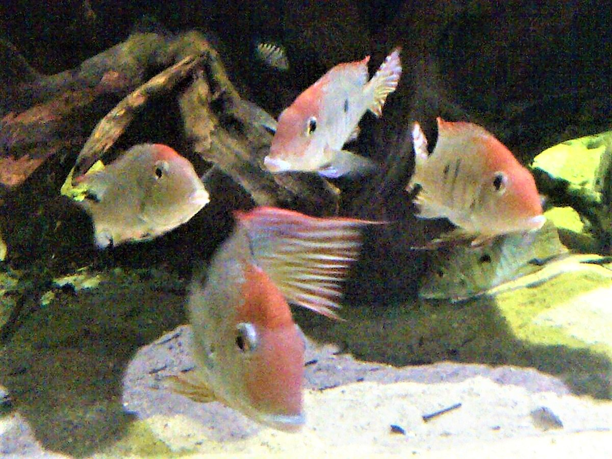 Geophagus sp. "orange head" (="Tapajos red head"), an undescribed species in the G. surinamensis group. Photo at the Blue Reef Aquarium - Newquay, in Cornwall, England.